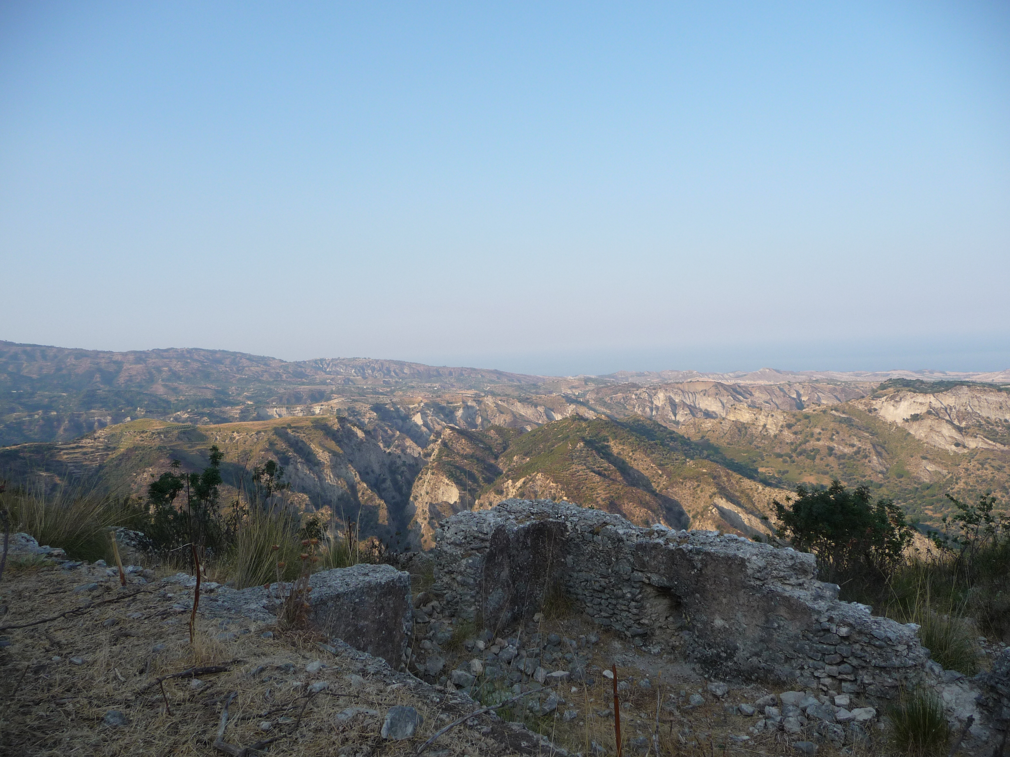 What remains of_kastrum_bizantino_IX_century (Stilo - italy)